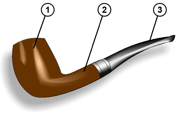 Savinelli's Italian smoking pipe (numbered)